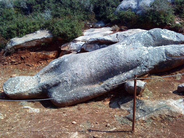 Kouros of Melanes